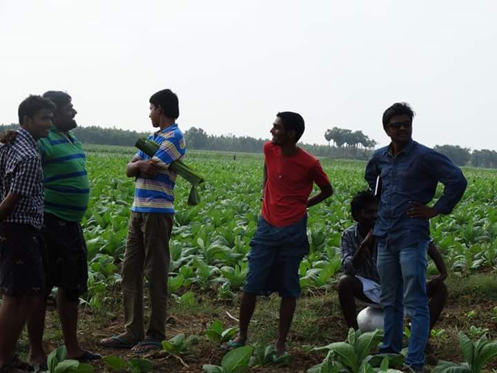 Mpl youth on Tobaco fields